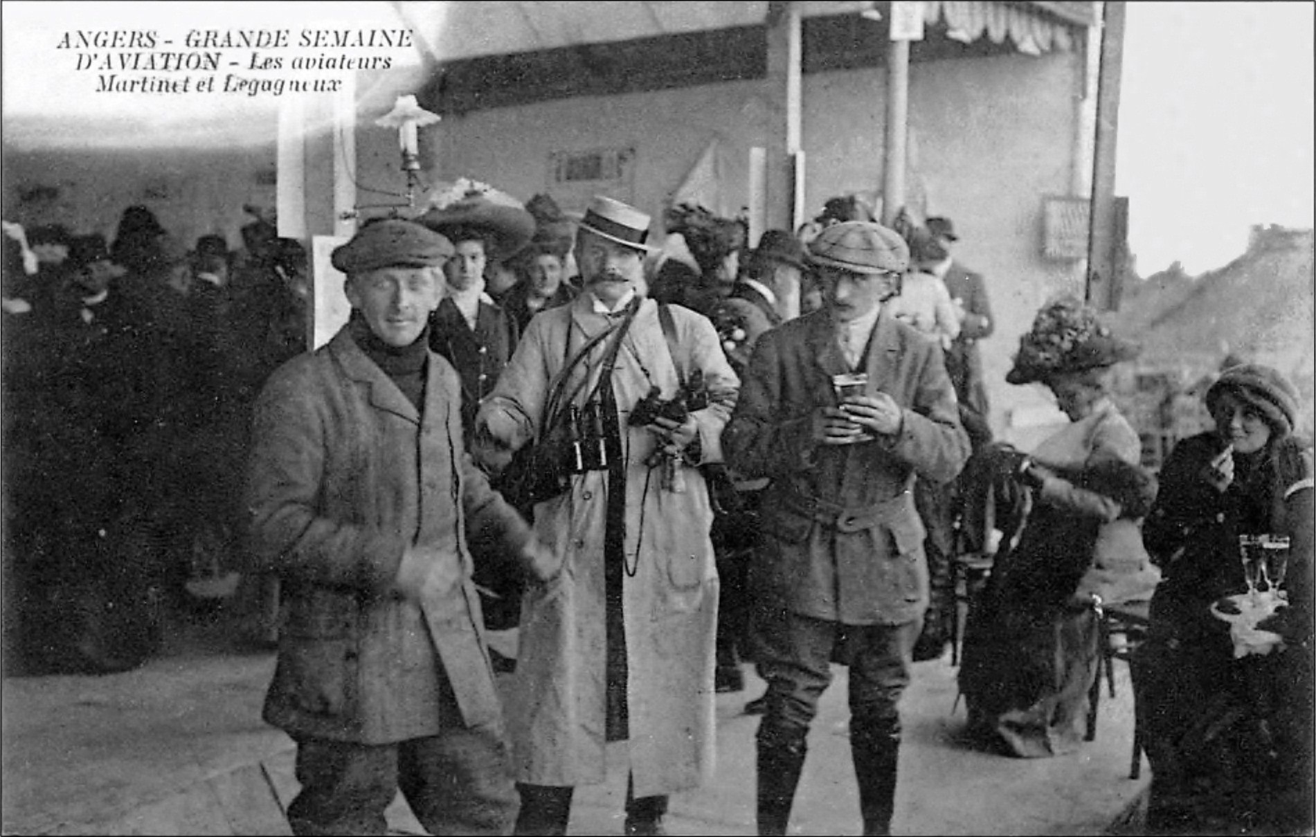 Photograph of the Angers-Saumur airplanes race, Monday, June 6, 1910. Robert Martinet on the left and Georges Legagneux on the right, in the center one of the organizers equipped with binoculars. The two airmen created the Corbelieu aerodrome near Compiègne with a flying school on Henry Farman aircraft. Georges Legagneux kills himself during the Air Show in Saumur on July 6, 1914. In service ordered during the First World War, Captain Robert Martinet was killed in a Farman aeoplane test near Mikra, Greece, on April 9, 1917.